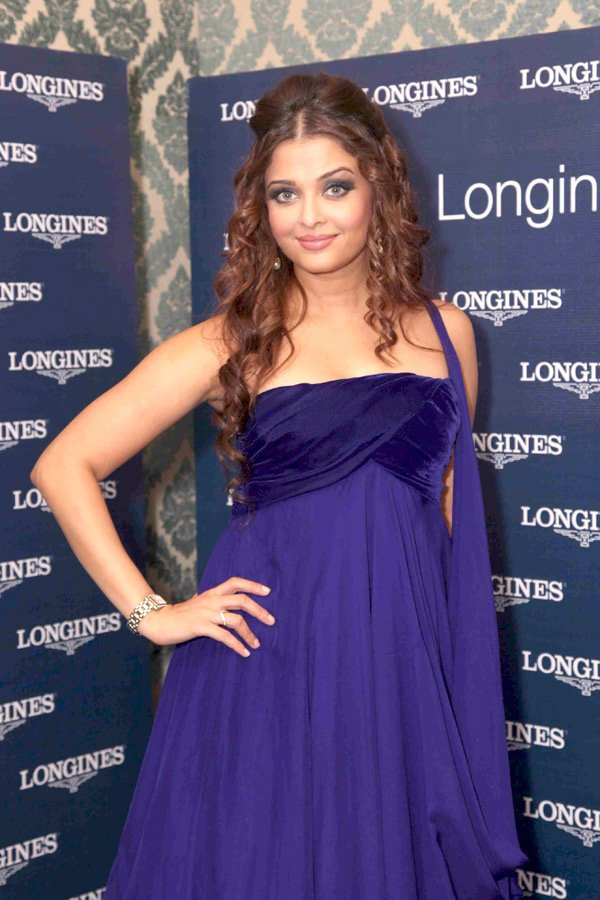 Aishwarya Rai Bachchan at the launch of Longines Dolcevita